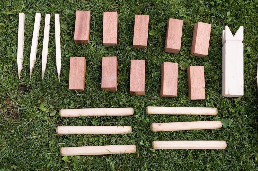 Play set for game Kubb.